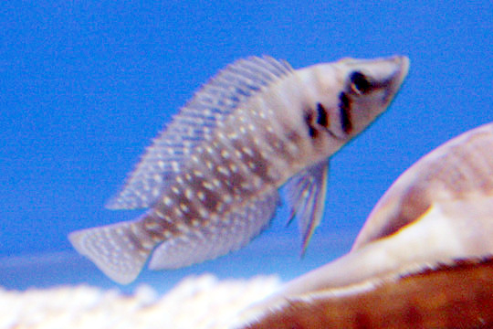 A small calvus cichlid (Altolamprologus calvus) at the 20th Pramong Nomklao fish show event at the Future Park Rangsit, Thailand, in July 2008. Picture taken by myself.